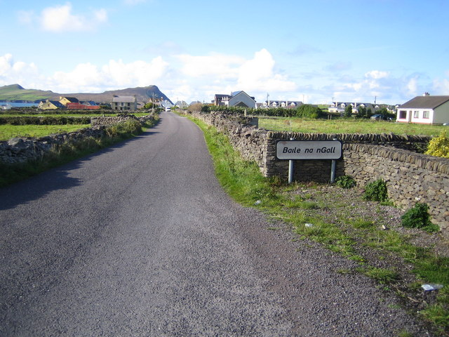 Baile na nGall (Ballynagall) Deep in the heart of the Gaeltacht, place name signs are most definitely written in Irish. This is the road leading into the village from An Mhuiríoch (Murreagh).